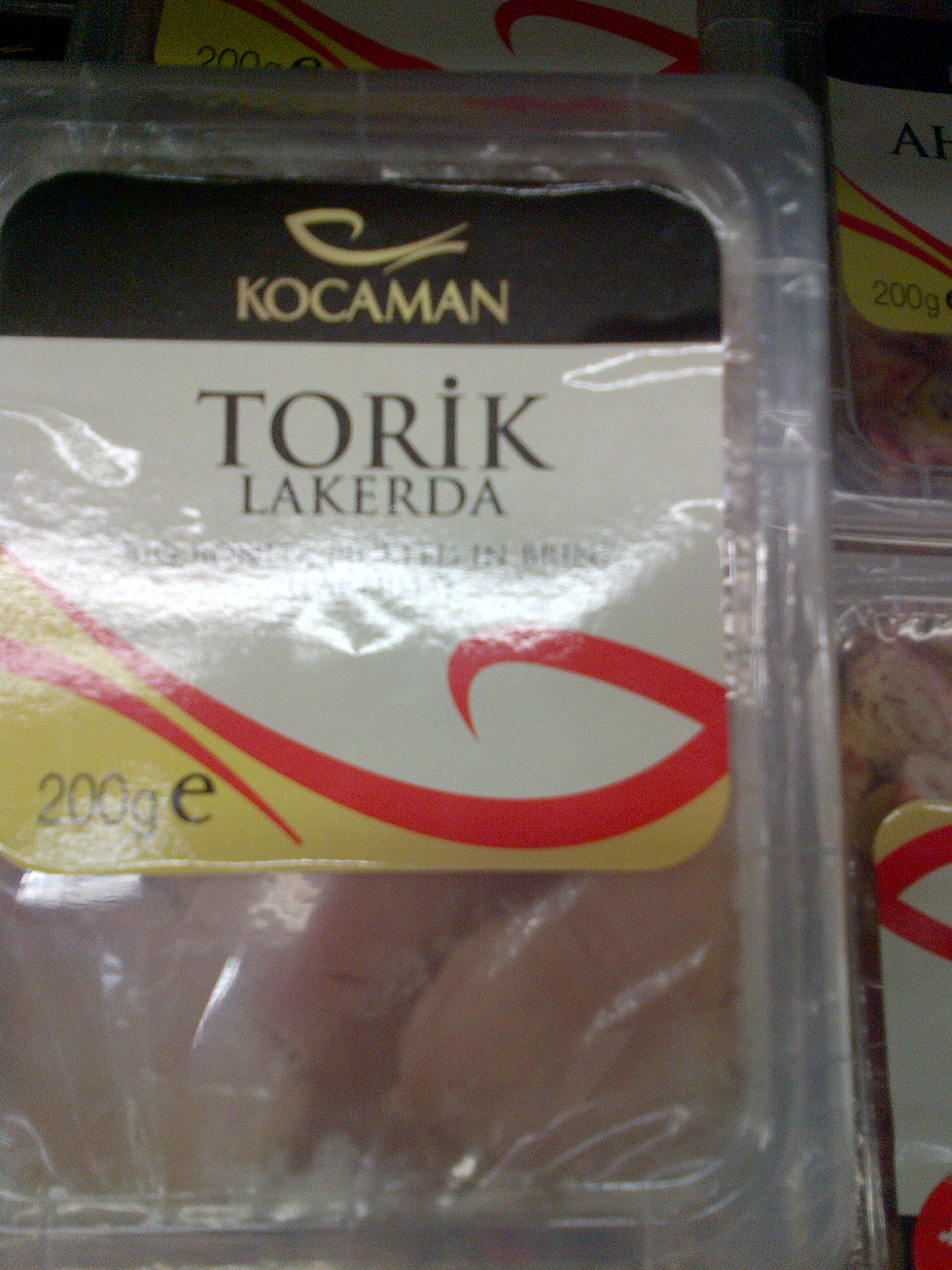 Torik (bonito) lakerda in Turkey